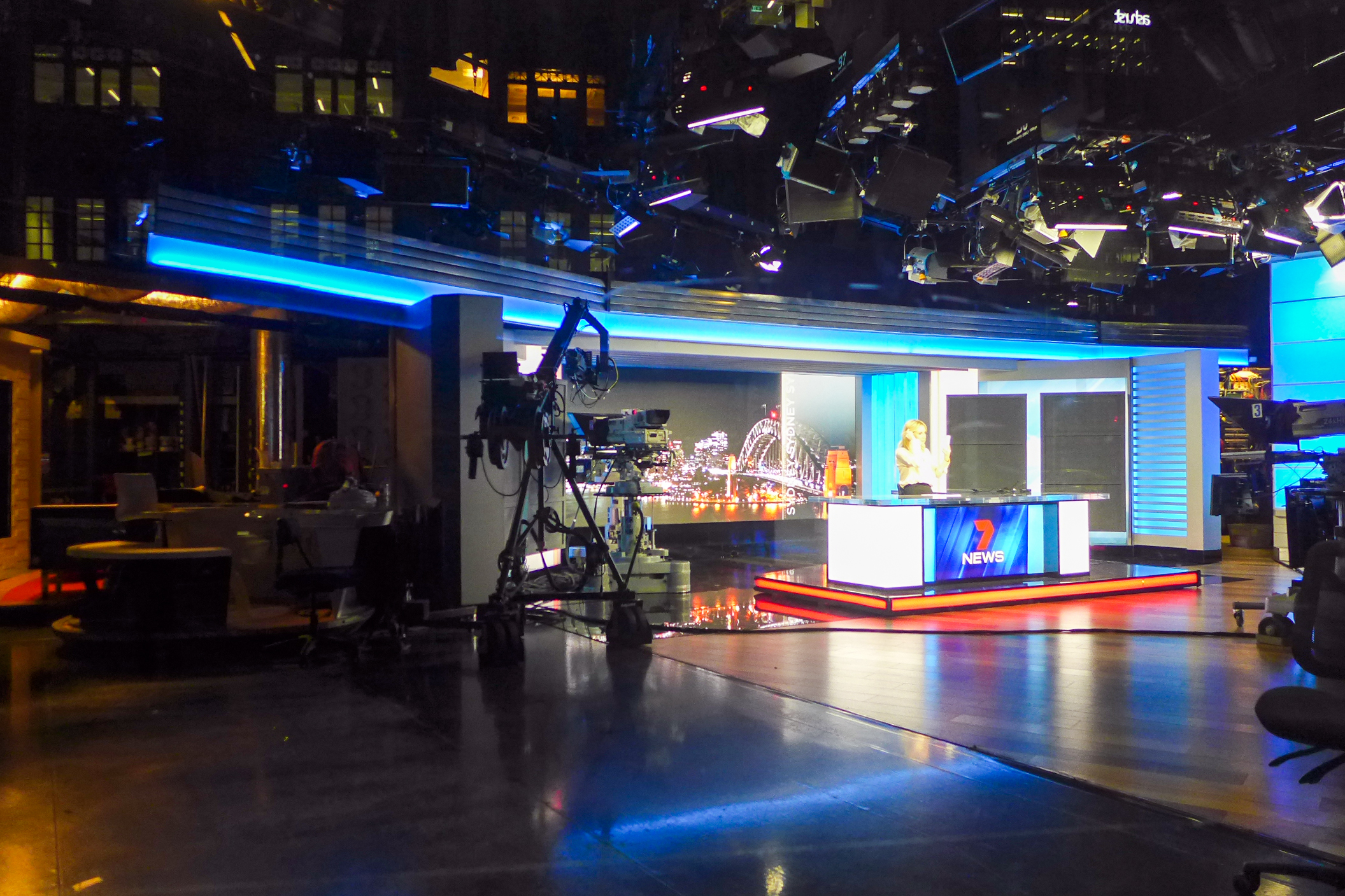 Seven News Studio in 2017